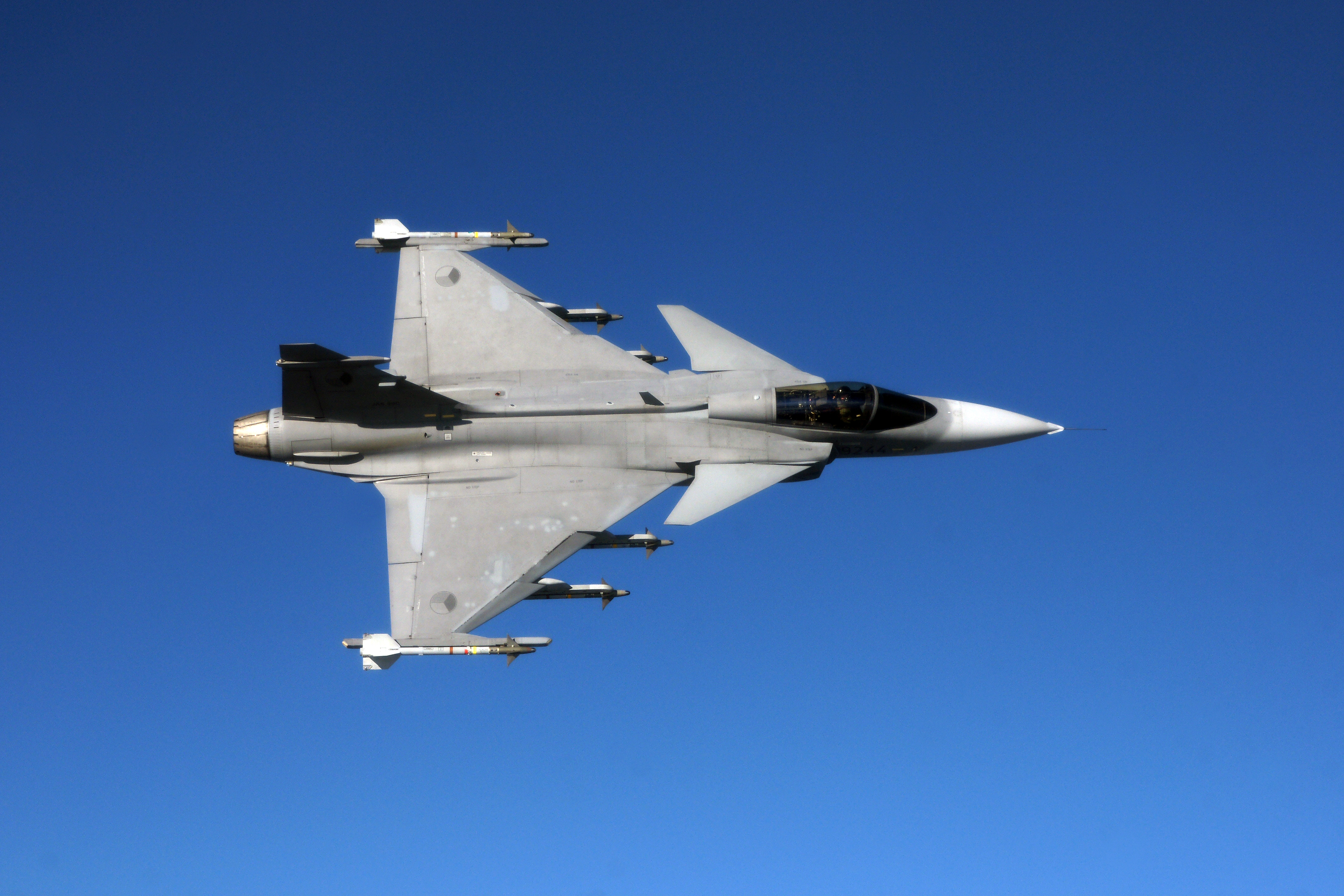 JAS-39 Gripen (CzAF) February 2014